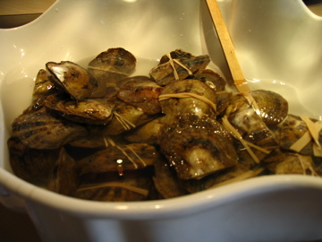 Oysters in a bowl in a shop in Hawaii. The customer chooses one to crack open and look for a pearl.